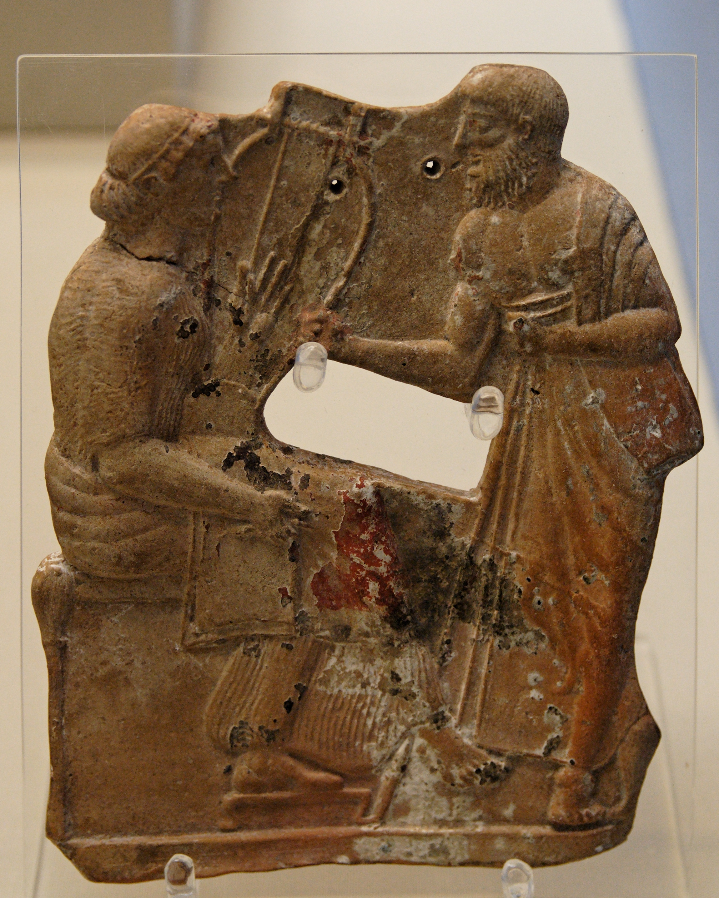 Man and woman conversing, maybe Alkaios and Saphho. Terracotta plaque, Melian artwork, ca. 460 BC. Provenance : tomb on Melos.